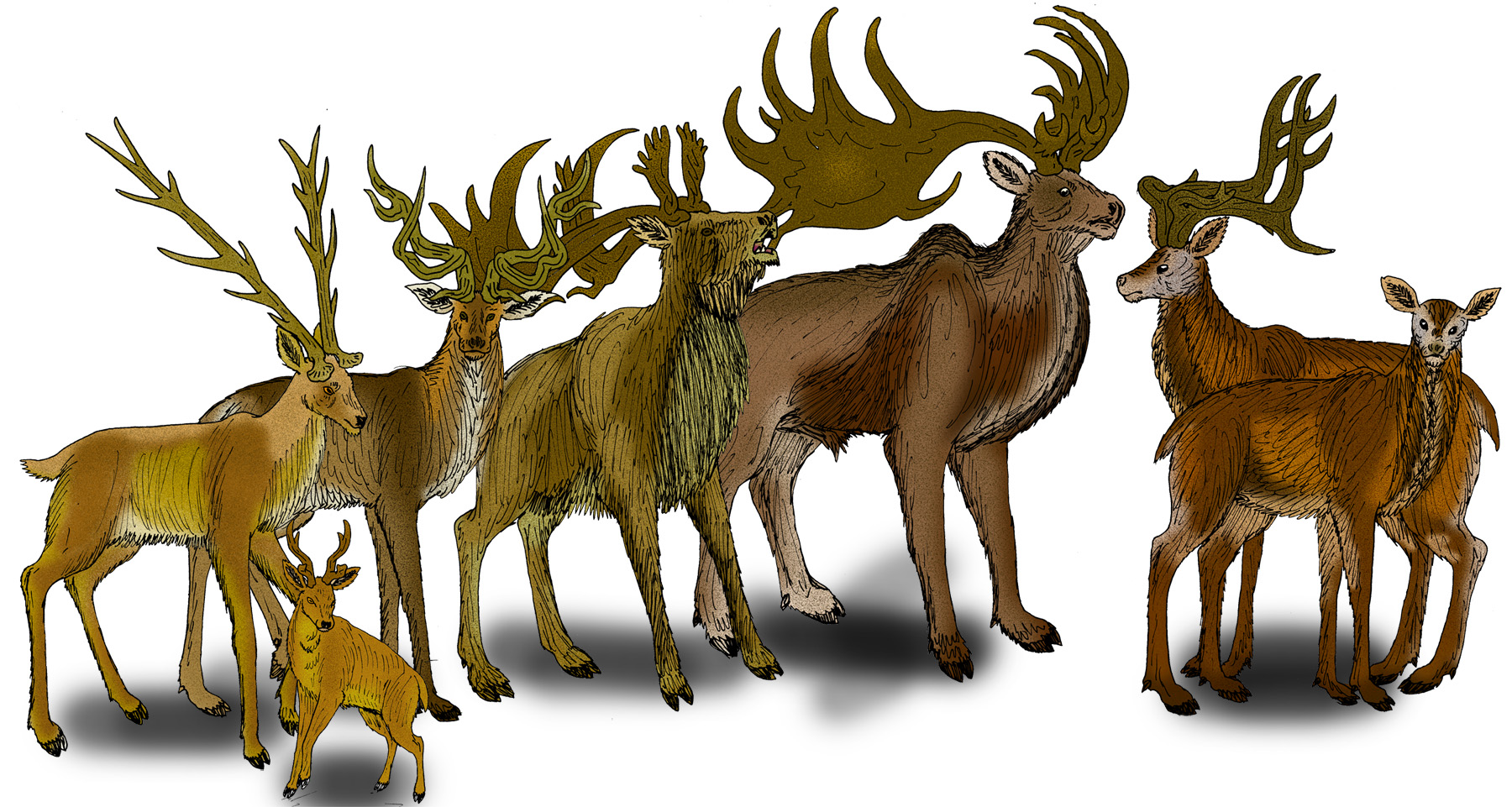 Various deer of the genera Megaloceros and Praemegaceros, from left to right, M. savini, P. cazioti, P. obscurus, M. pachyosteus, M. giganteus, and P. verticornis (C) Stanton F. Fink